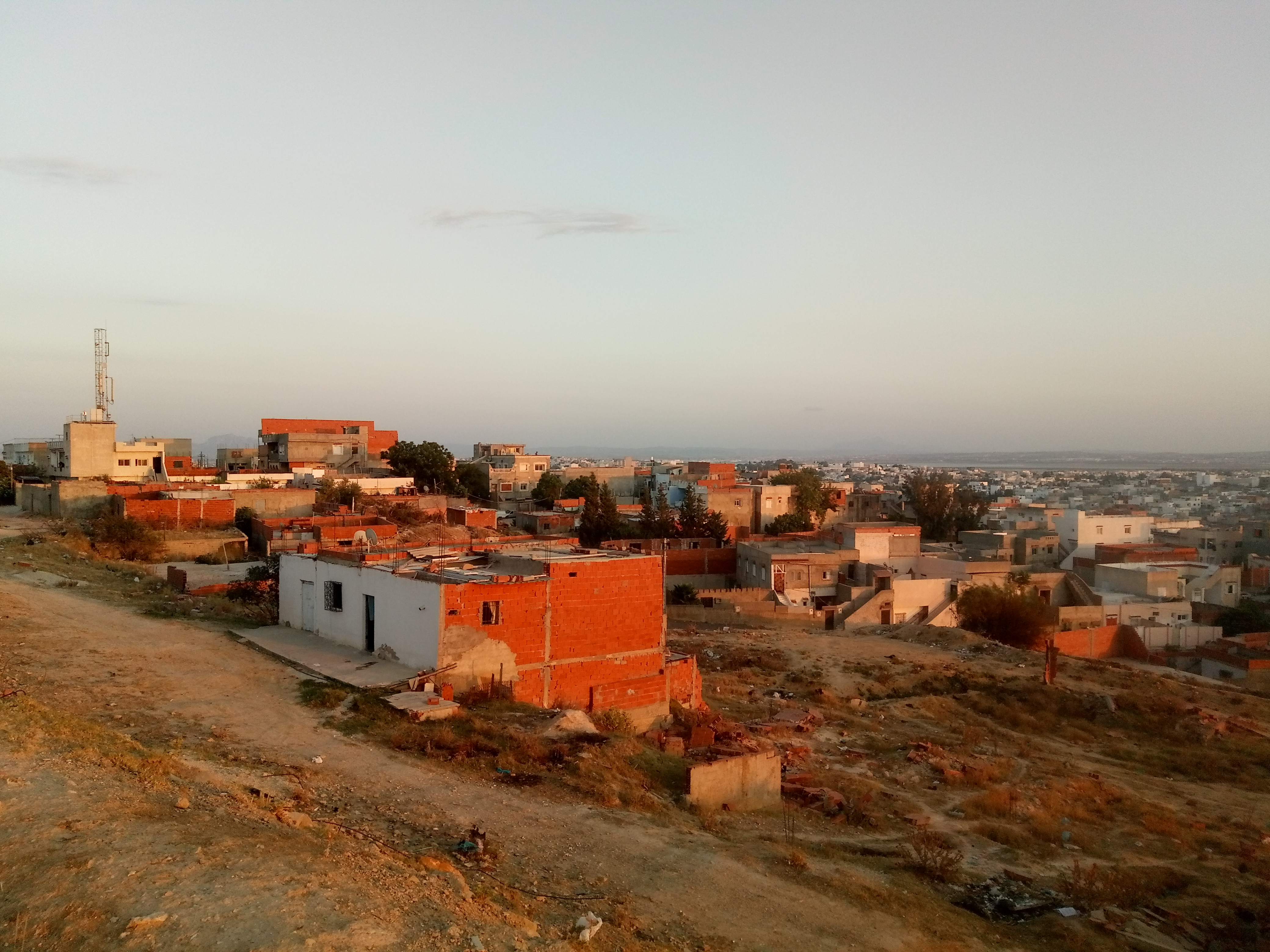 Jbal Lahmar, a popular area of Tunis.